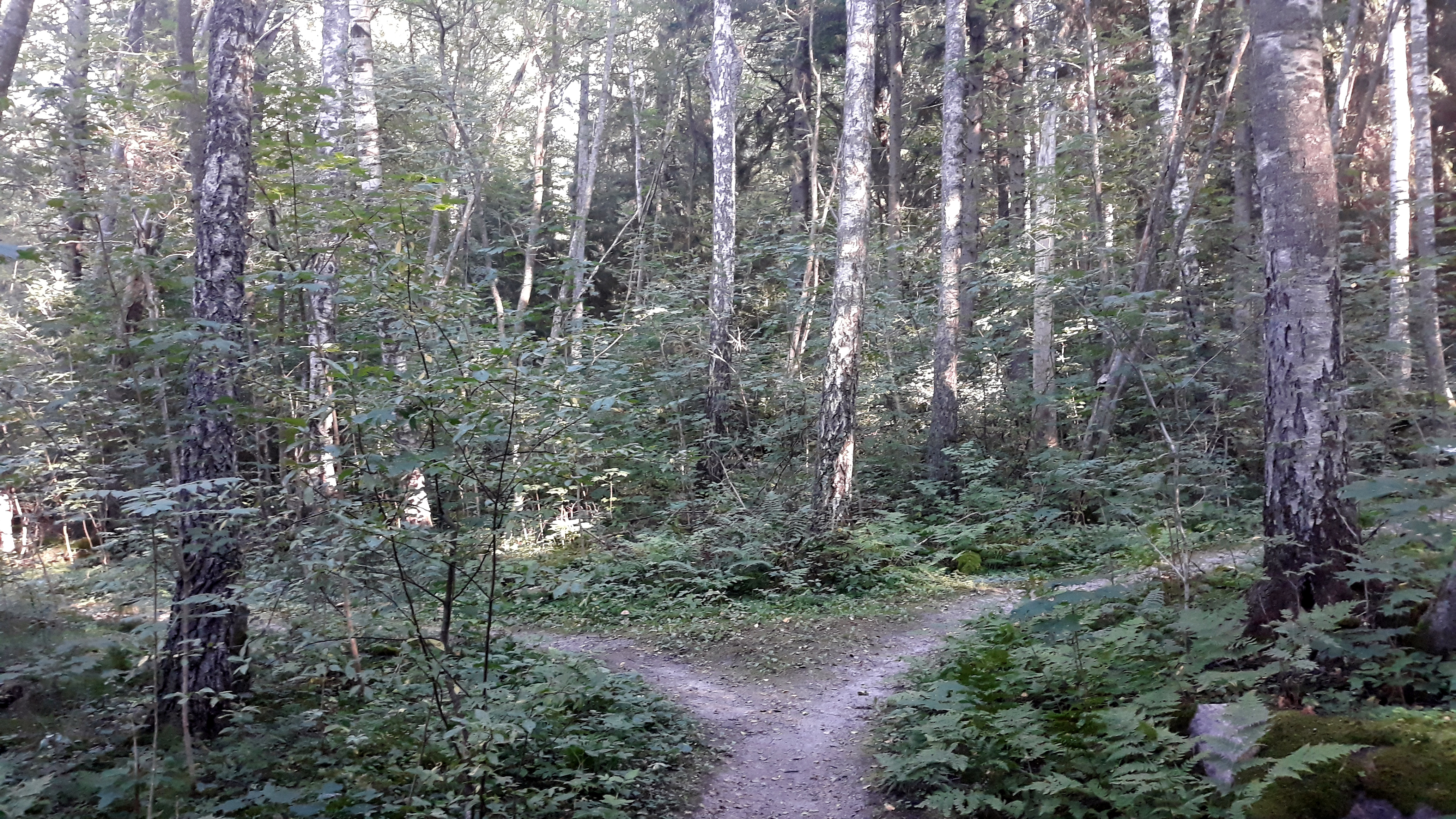 The preserved grove on the northern shore of Ramsinniemi in Meri-Rastila, Helsinki.